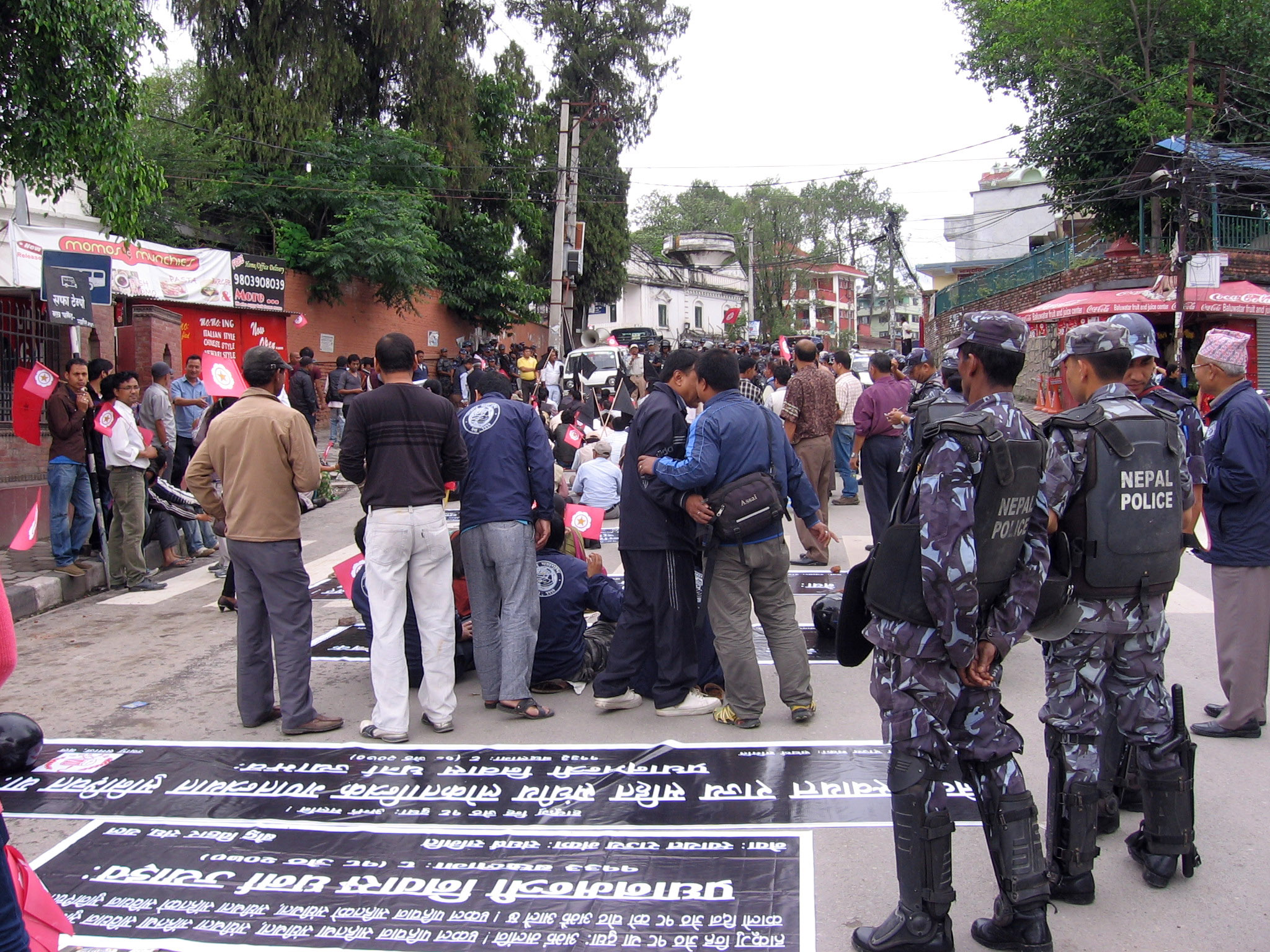 A sit-in held by Nepal Bhasa lovers outside the prime minister's residence in Kathmandu to mark Black Day on June 1, 2013.